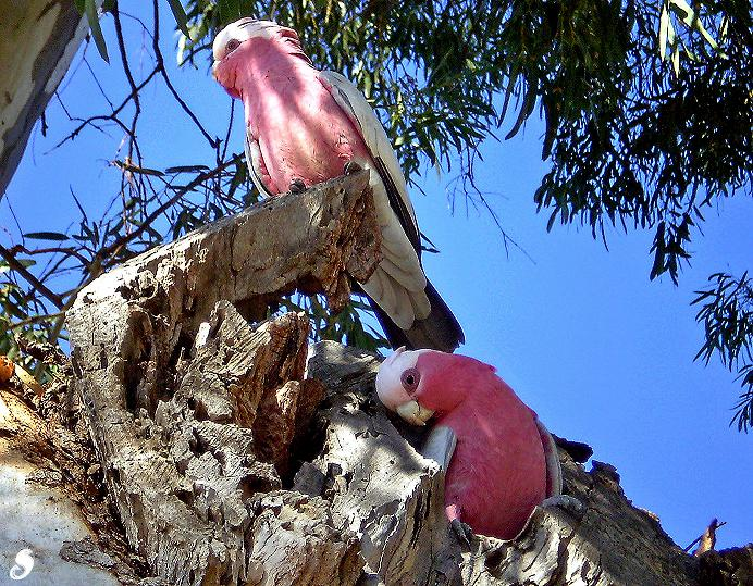 Galahs preparing their nest